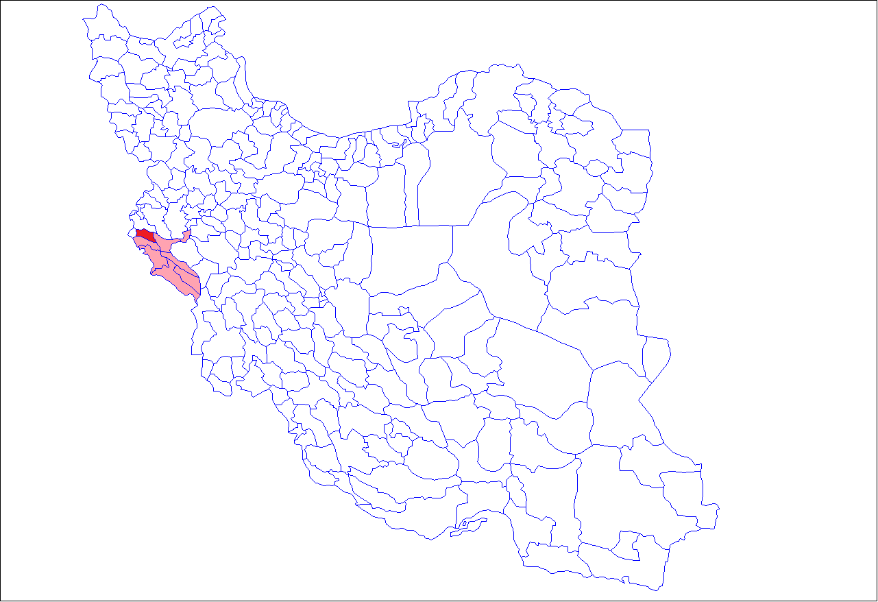 Location of Eywan county within Ilam province.[1]